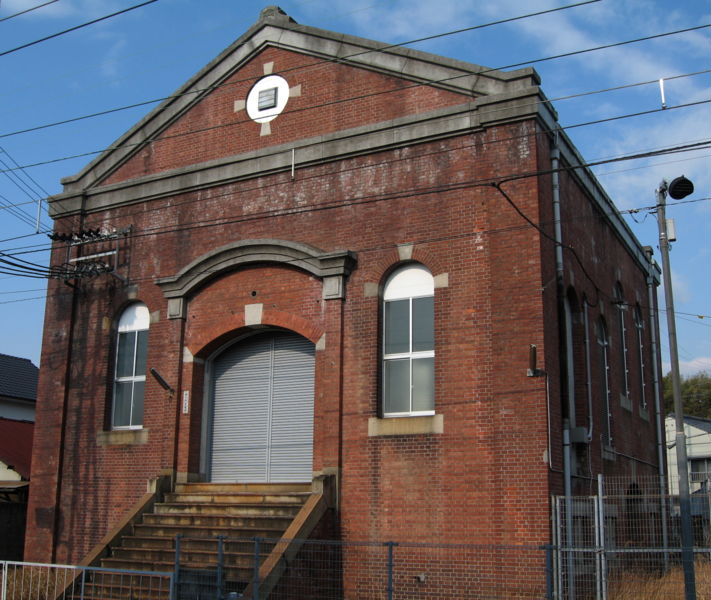 Photo by Taisyo from :ja:広島電鉄廿日市変電所01.jpg.